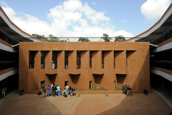 The interior and library of the Lycée Français Jules Verne, in Guatemala